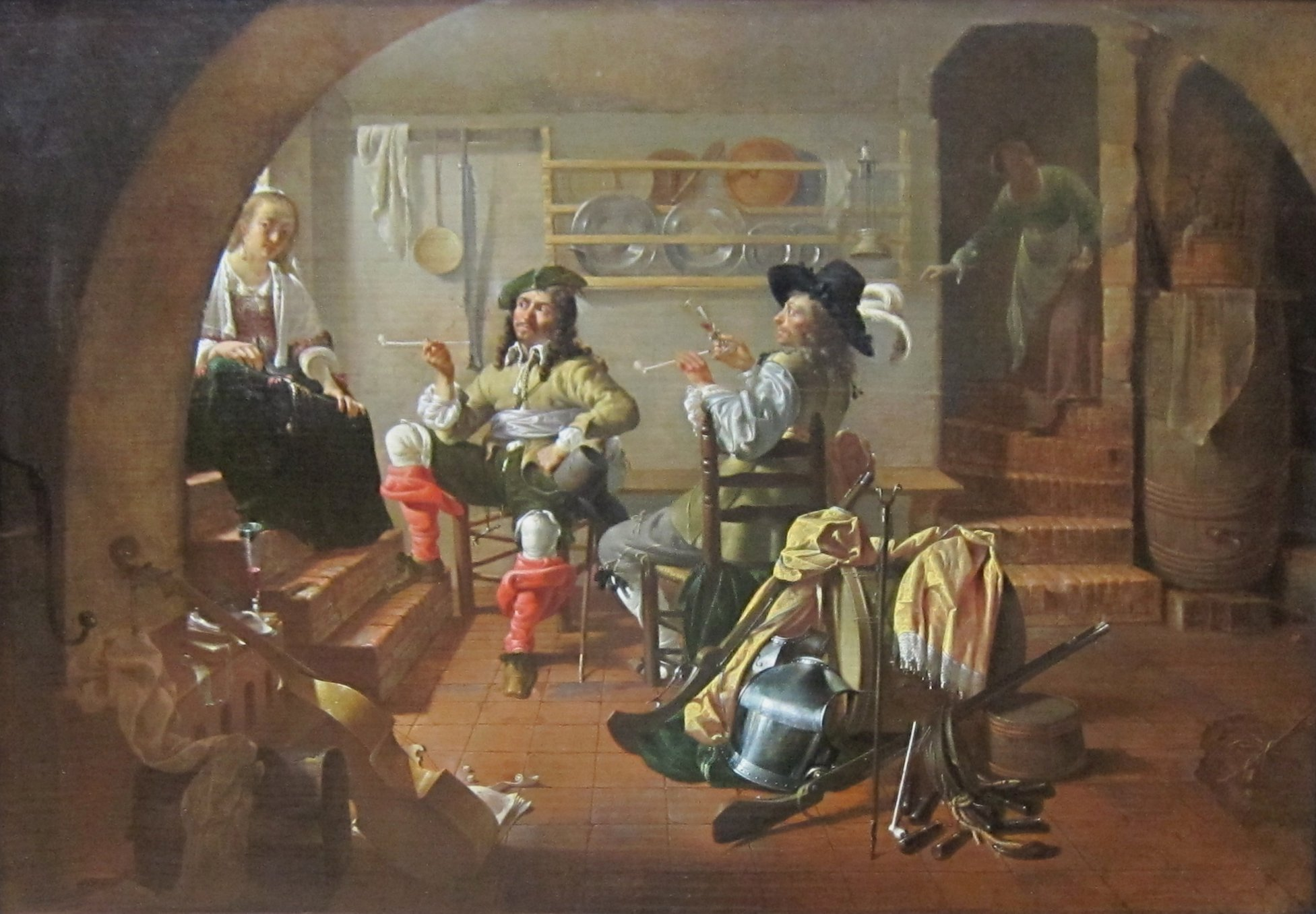 Interior with Soldiers and Women